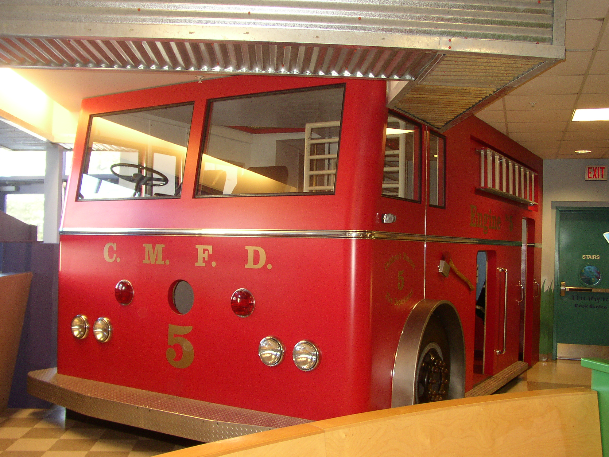 Children's Museum & Theatre of Maine Fire Truck